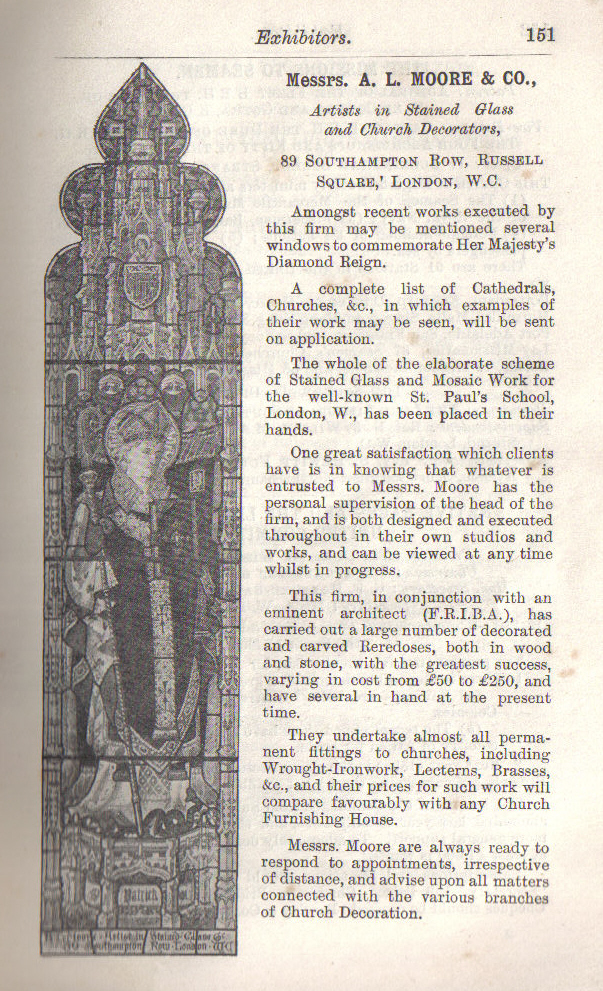 A. L. Moore & Co., Artists in Stained Glass and Church Decoration, 89 Southampton Row, Russell Square, London. From the Illustrated Guide to the Church Congress 1897